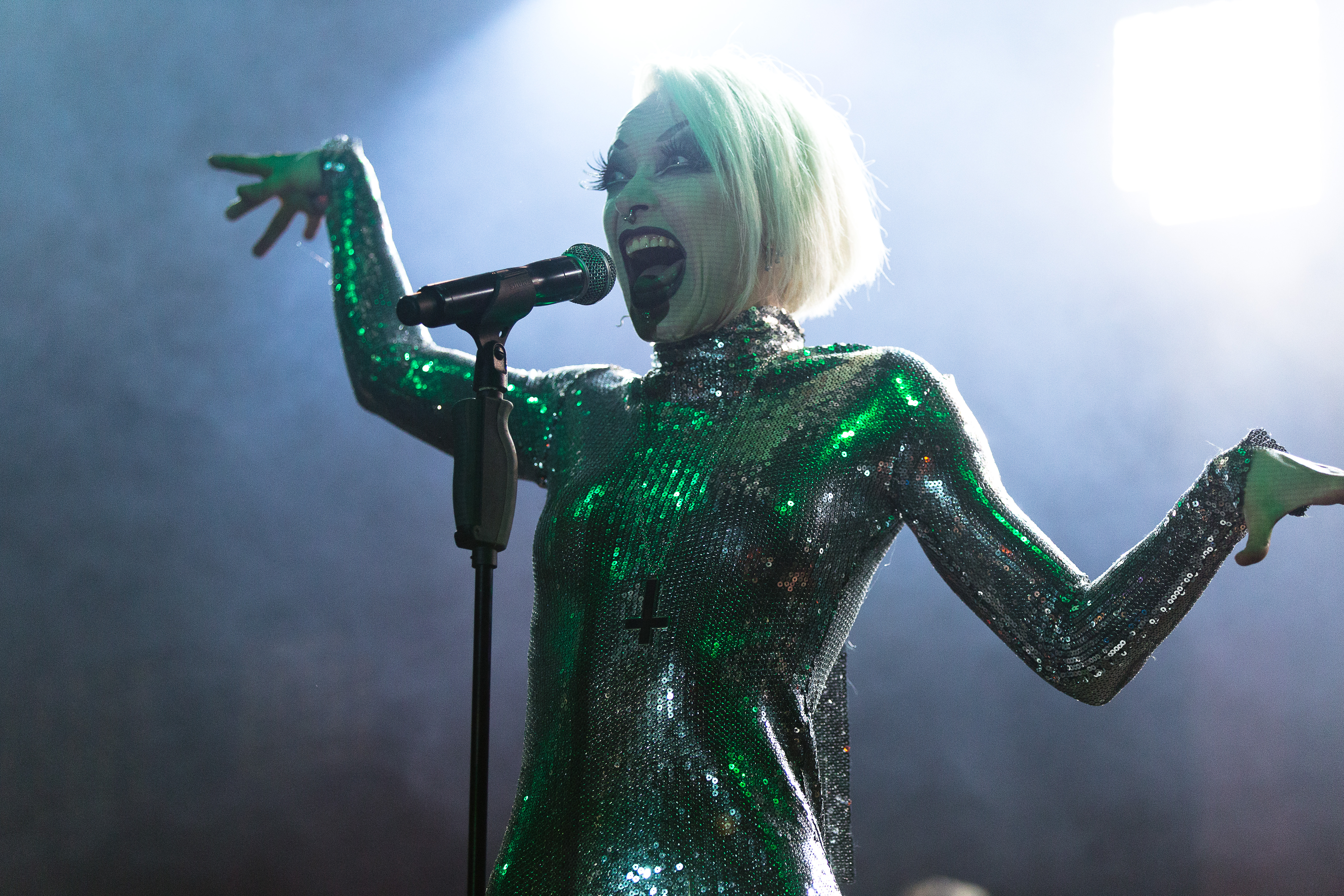 The German electro/industrial/punk band Grausame Töchter at the 25. Wave-Gotik-Treffen 2016 in Leipzig/Germany.